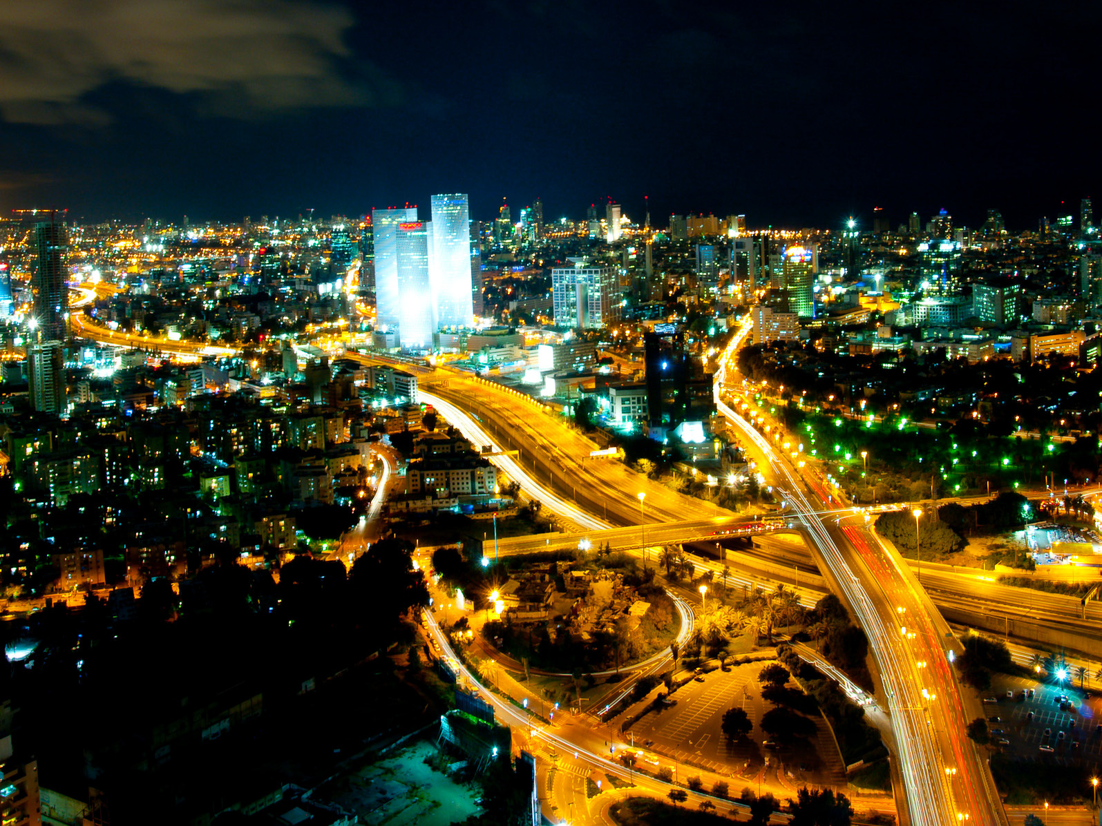 A long exposure shot of the southern Tel Aviv skyline, including the Azrieli towers in the center. This shot was taken from Moshe Aviv tower.